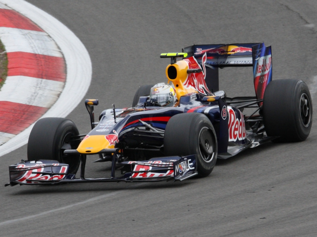 Sebastian Vettel driving for Red Bull Racing at the 2009 German Grand Prix. Shadow Fox trimmed the picture File:Sebastian Vettel 2009 Germany.jpg in order to describe the latter version nose of RB5.